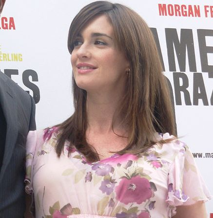 Paz Vega at the presentation of the film 10 Items or Less in Madrid (Spain).